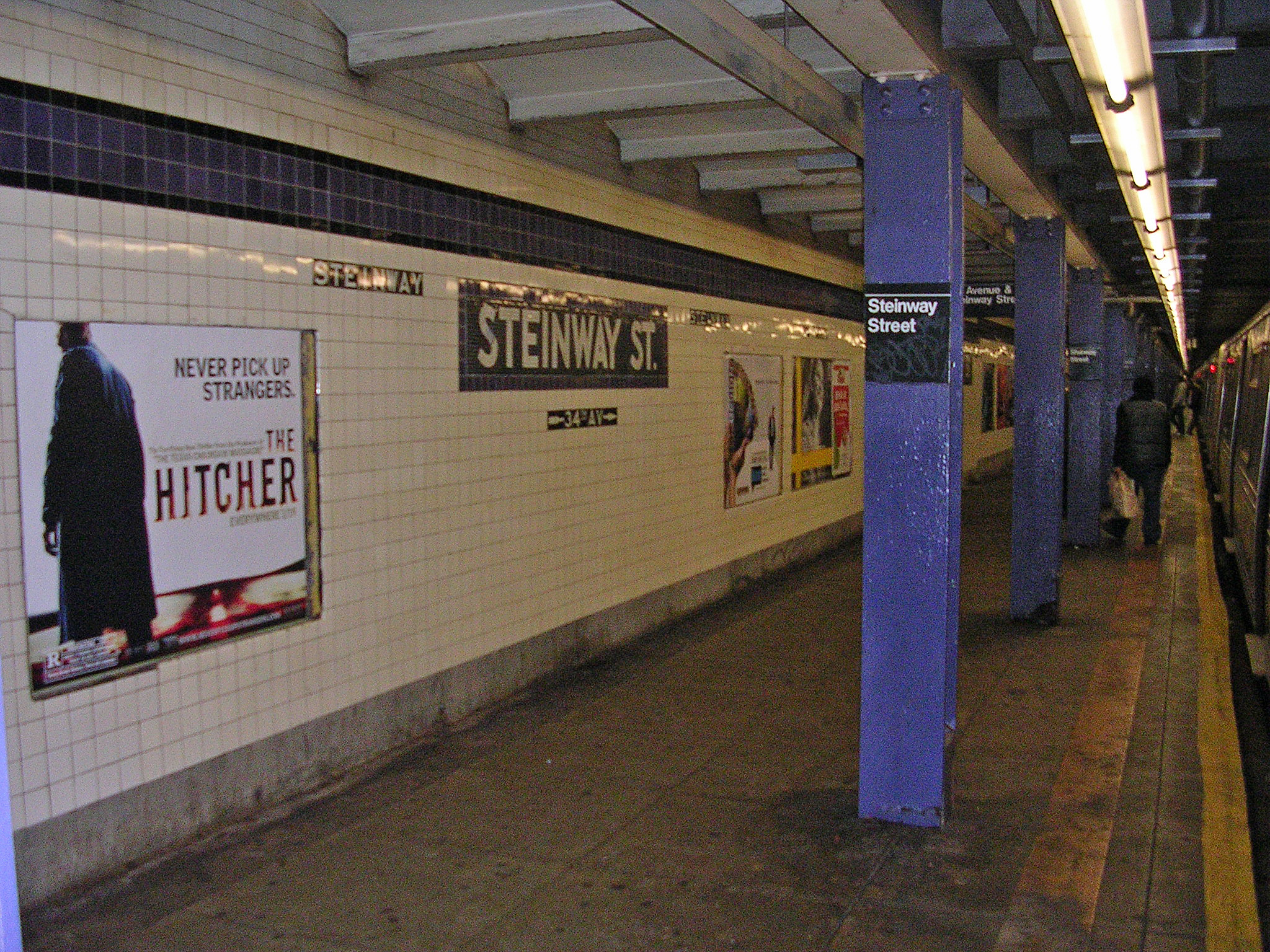 Steinway Street Subway Station by David Shankbone, January 15, 2007.